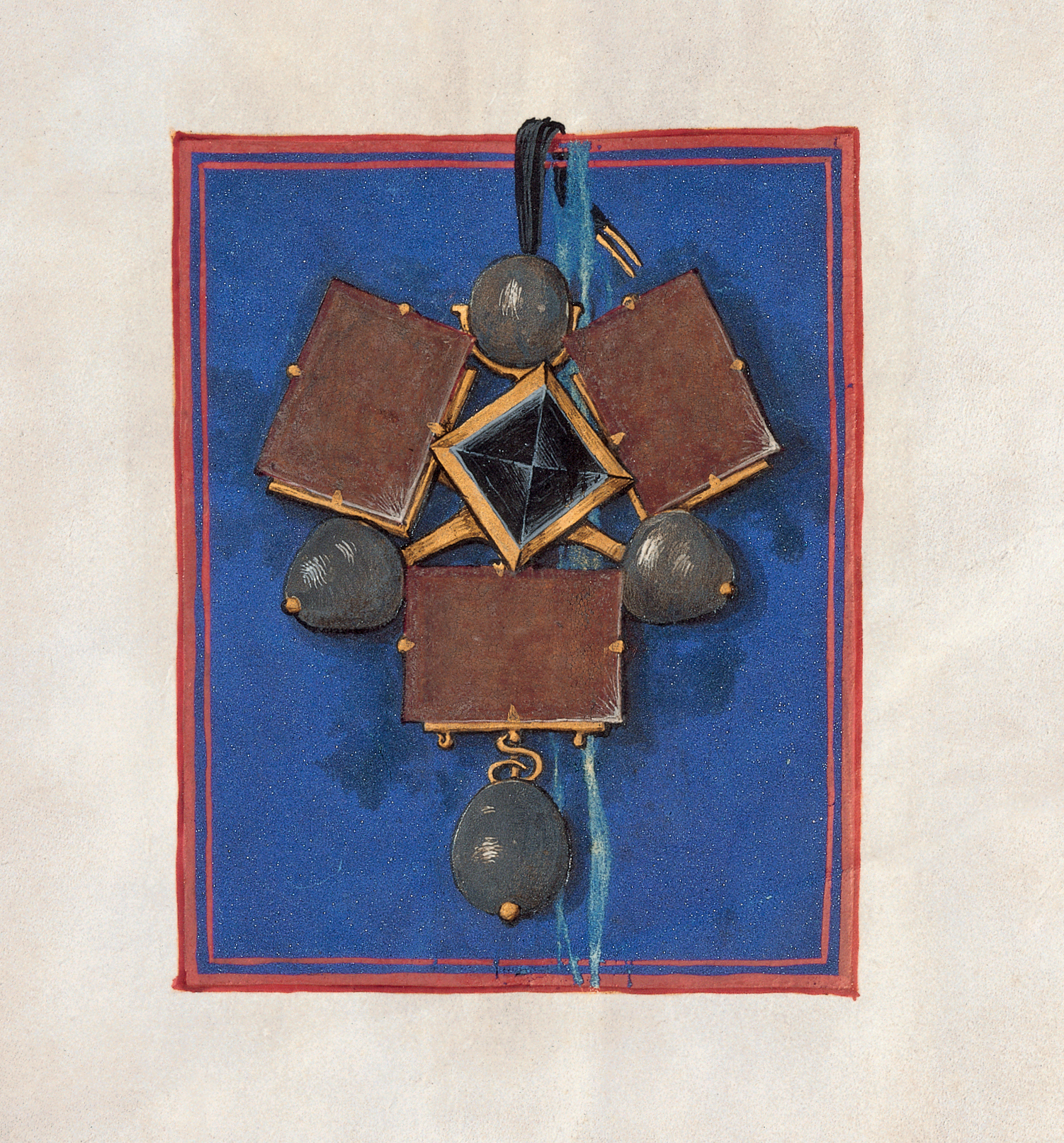 Miniature painting of The Three Brothers jewel, commissioned by the city of Basel around 1500. The Brothers were created in 1389 and consisted of three rectangular red spinels in a triangular arrangement, adorned with four round white pearls, and a deep blue diamond in the middle. The painting served as an inventory, but also as an advertisement to potential buyers, and was drawn at a scale of 1:1. The jewel was acquired by banker Jakob Fugger in 1504, who in turn sold it to England, where it became part of the crown jewels. It was prominently worn by Elizabeth I and James I, but pawned or sold around 1645. The painting is now in the Basel Historical Museum, while the jewel remains lost.